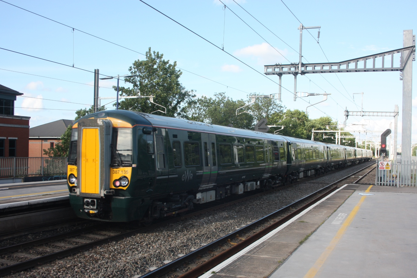 A Great Western Railway electric train, formed by units 387148 and 387135, leaves Maidenhead for Paddington during only the second week of electric services here.